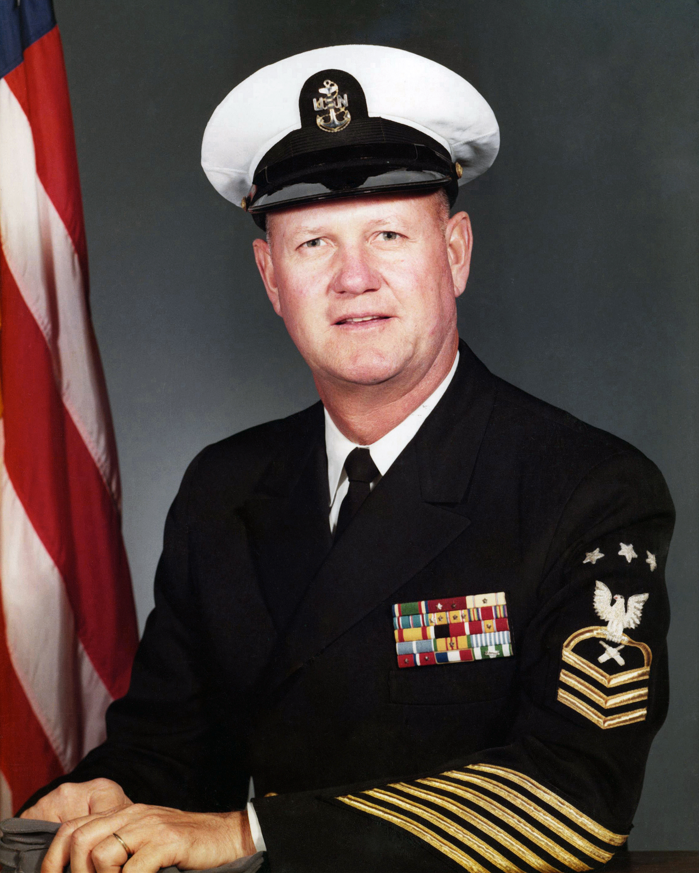 GMCM Delbert D. Black, USN First Master Chief Petty Officer of the Navy